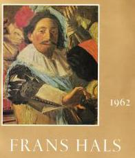 Cover of Exhibition catalog in 1962 for the Frans Hals Museum, with illustration after Frans Hals